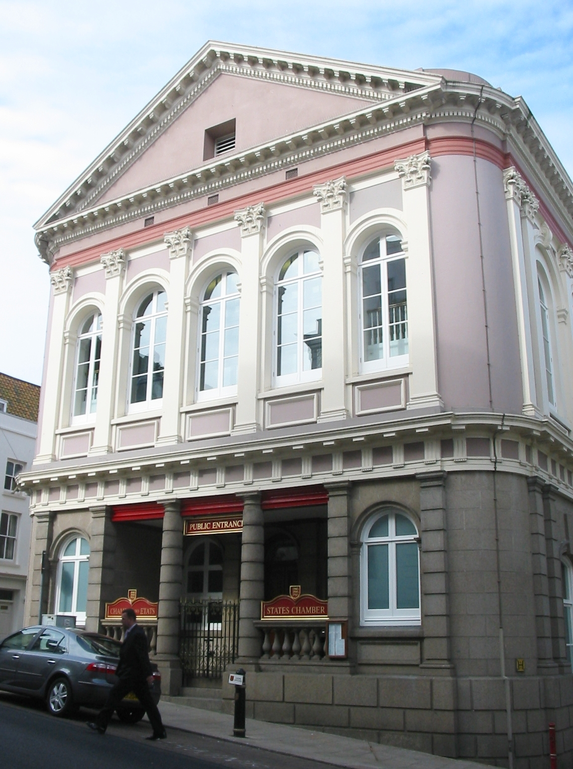 States Building, in St. Helier, Jersey, from States Chamber end, showing public entrance to legislature. Photo taken by Man vyi with Canon PowerShot A40 on 25/5/2005